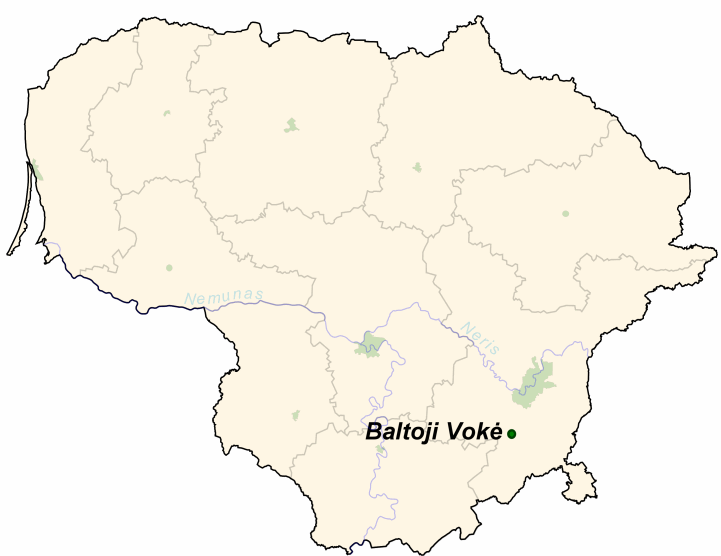 Baltoji Vokė on the map of Lithuania